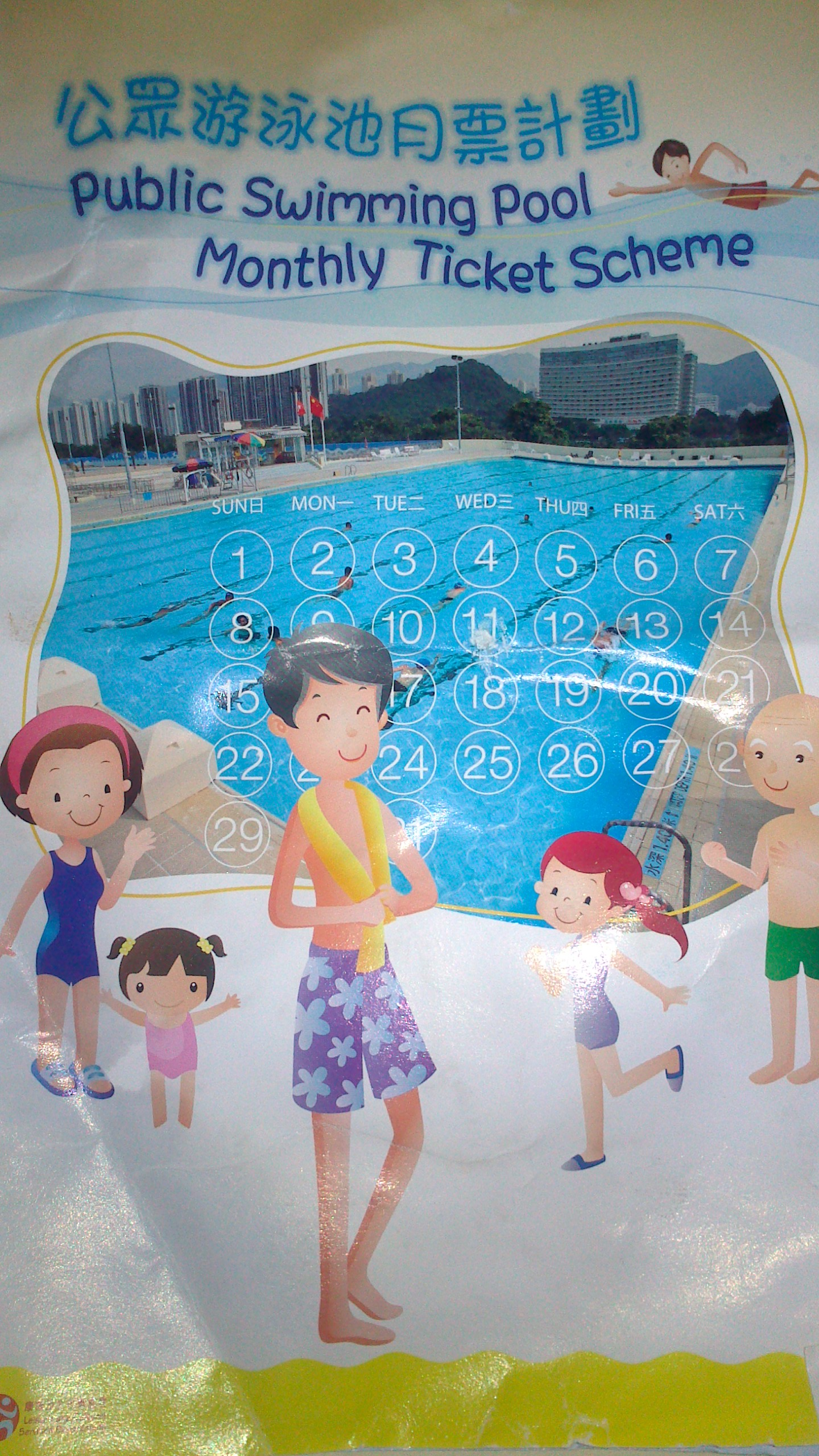 a leaflet of Public Swimming Pool Monthly Ticket Scheme in Hong Kong 中文（香港）: 香港公眾游泳池月票計劃宣傳單張